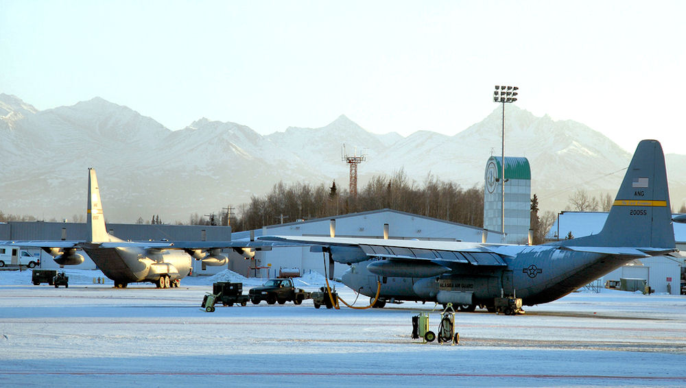 C-130s are maintained on Kulis Air National Guard Base earlier this month while Guardmembers prepare for the move to Joint Base Elmendorf-Richardson. All of the aircraft from Kulis will make a final pass on Feb. 12 to signify the shutting down of the Alaska Air National Guard base. (U.S. Air Force photo by Master Sgt. Shannon Oleson